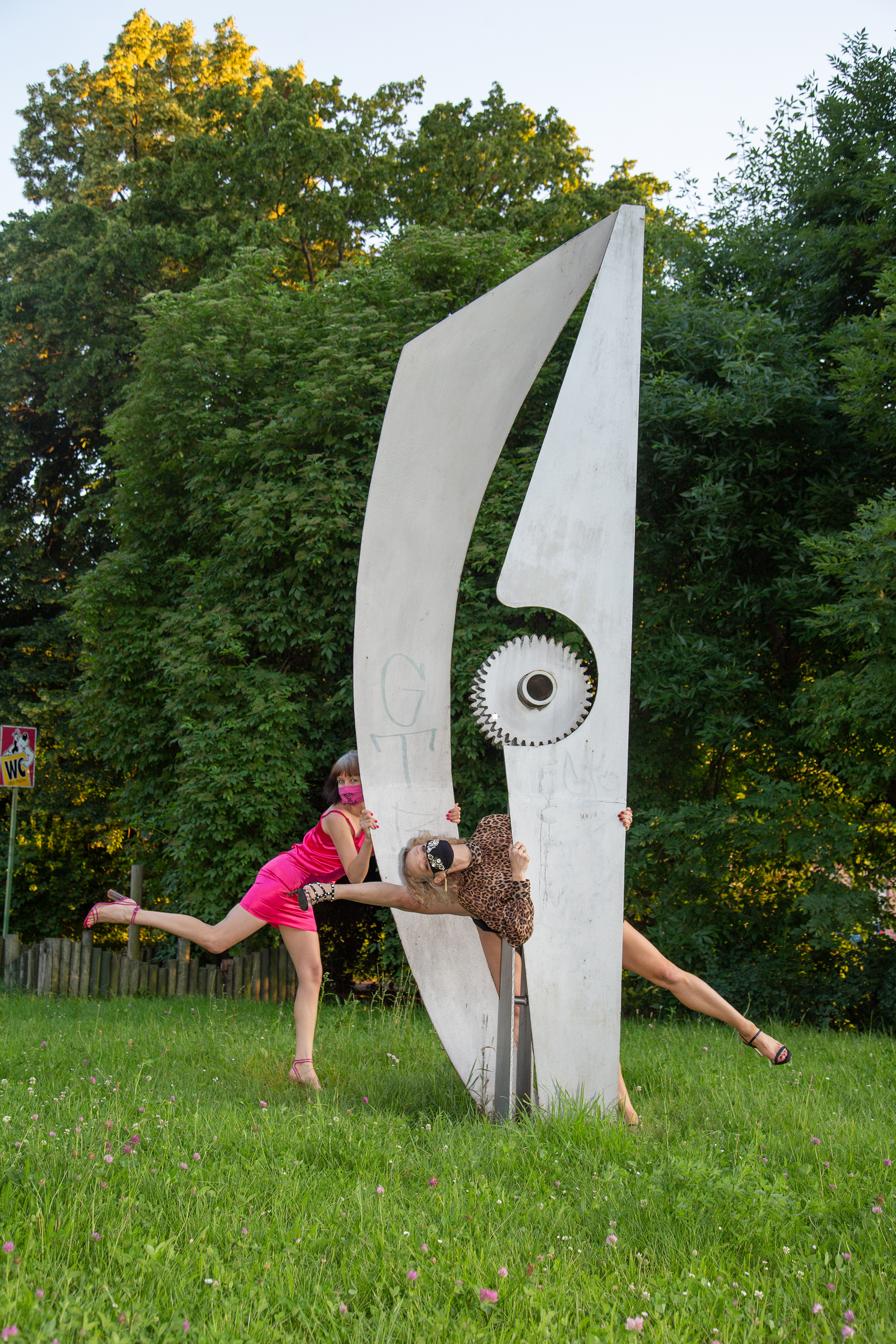 A spatial form created by Jetta Donega (collaborators: Z. Czarnecki, E. Kopryk, Z. Nowek, M. Tracz, A. Tażuszel) created during the 1st Biennial of Spatial Forms in Elbląg (1965). Located at the exit from Słowiański Square towards the Planty Park Square in Elbląg. It is 4 meters high. In the background, visual artists: Iwona Demko and Agata Zbylut with curator Karina Dzieweczyńska while working on the project entitled "Congress of dreamers / Kongres Marzycielek” carried out at the Art Center Gallery EL.